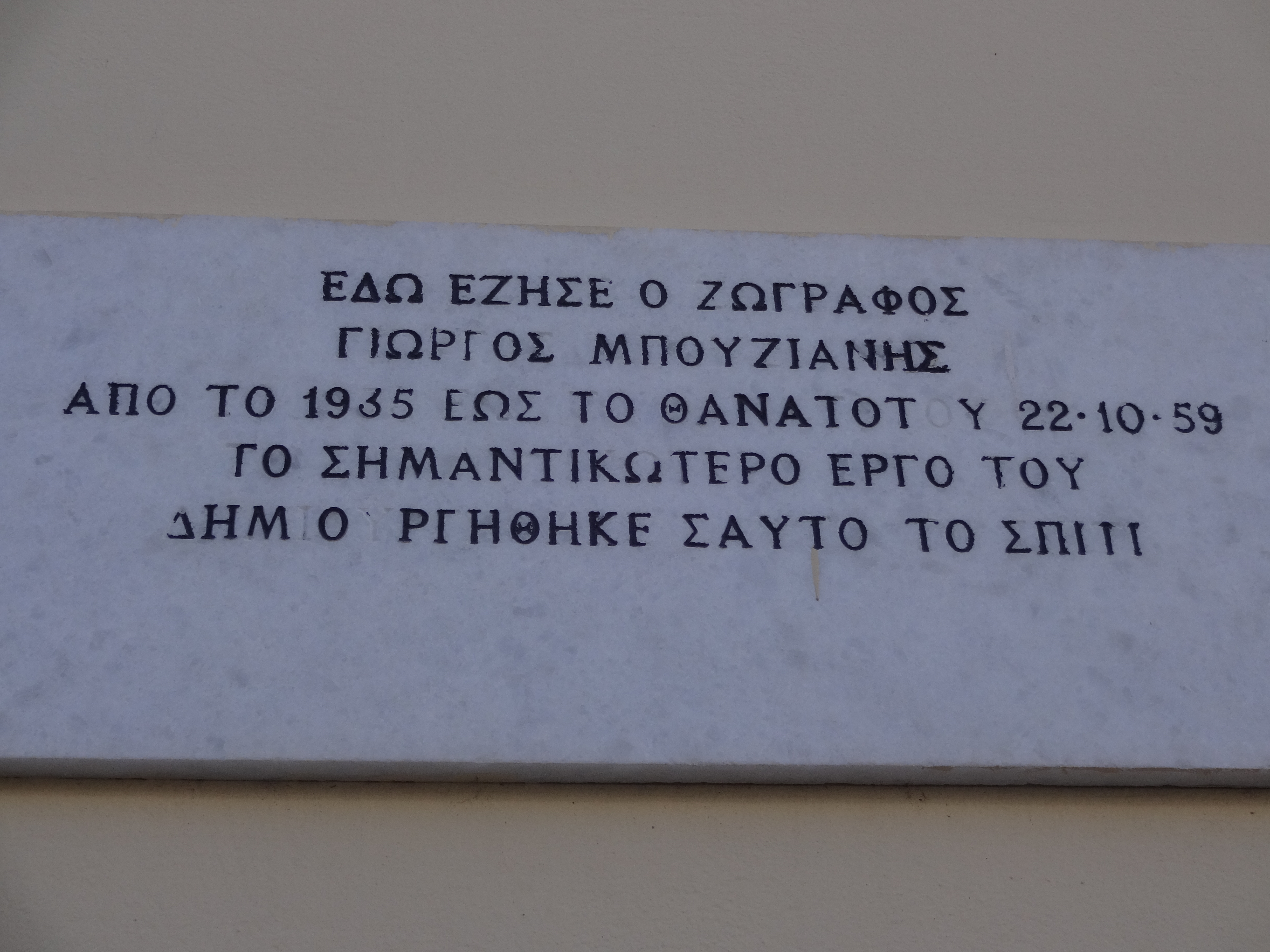 Memorial plate on the home of Greek painter George Bouzianis in municipalitet Daphni, Athens, Greece